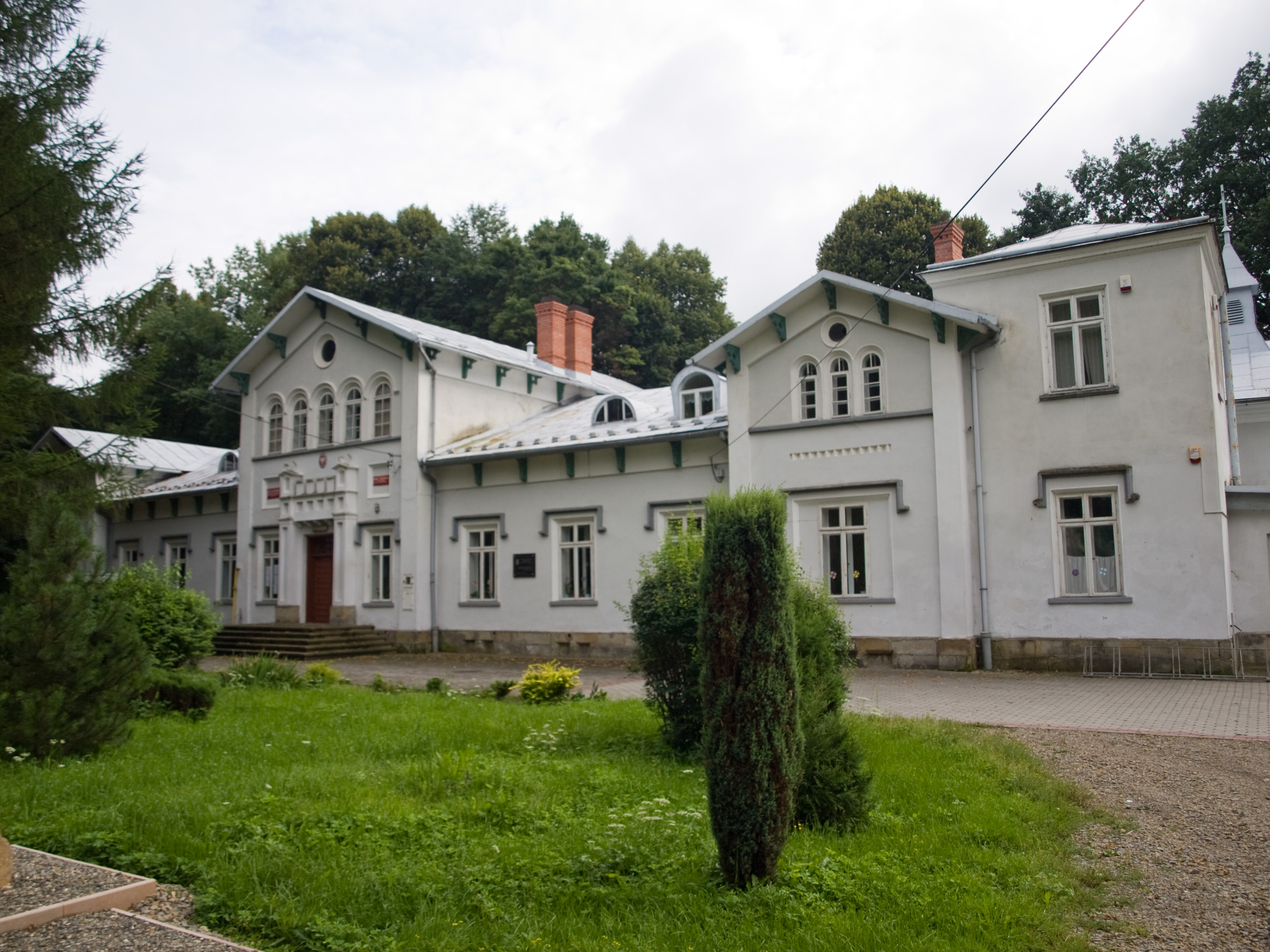 Manor house, Bratkówka, Subcarpathian Voivodeship